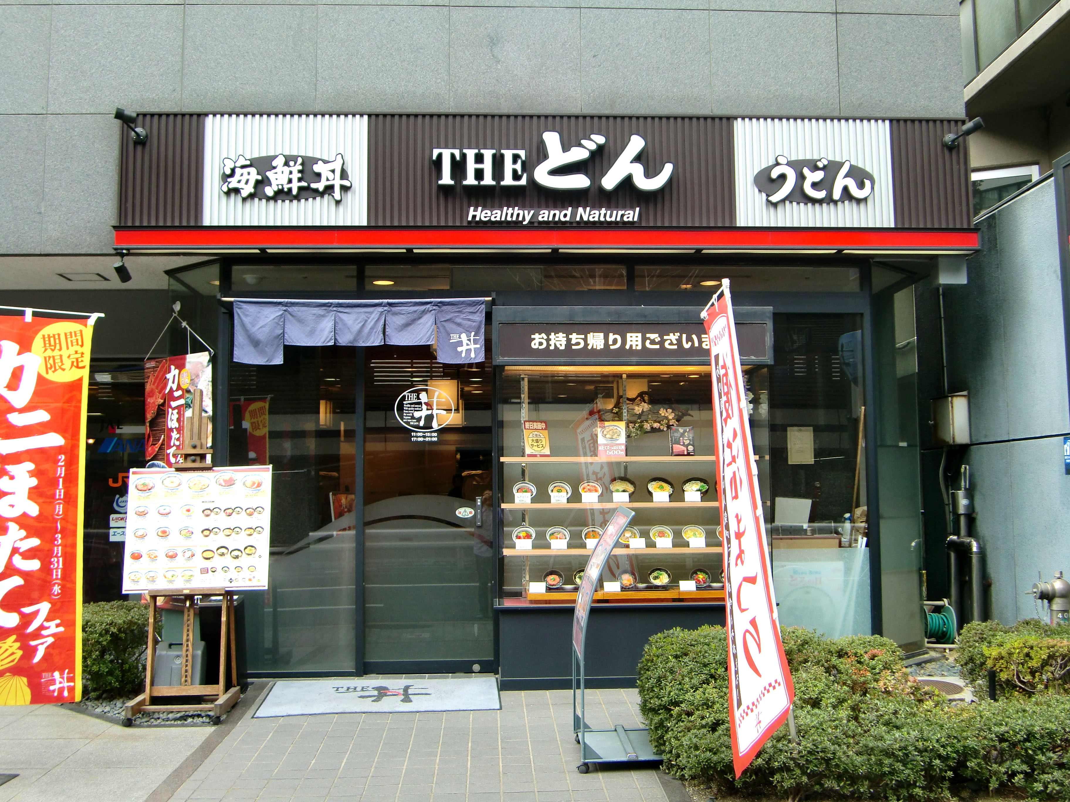 THE DON,1-4-25 Toyotsucho Suita-City Osaka Japan.